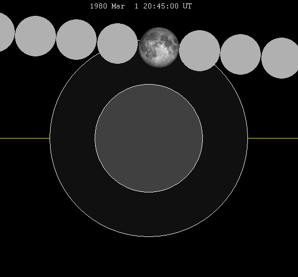 March 1980 lunar eclipse chart of moon's path through the earth's shadow. thumb